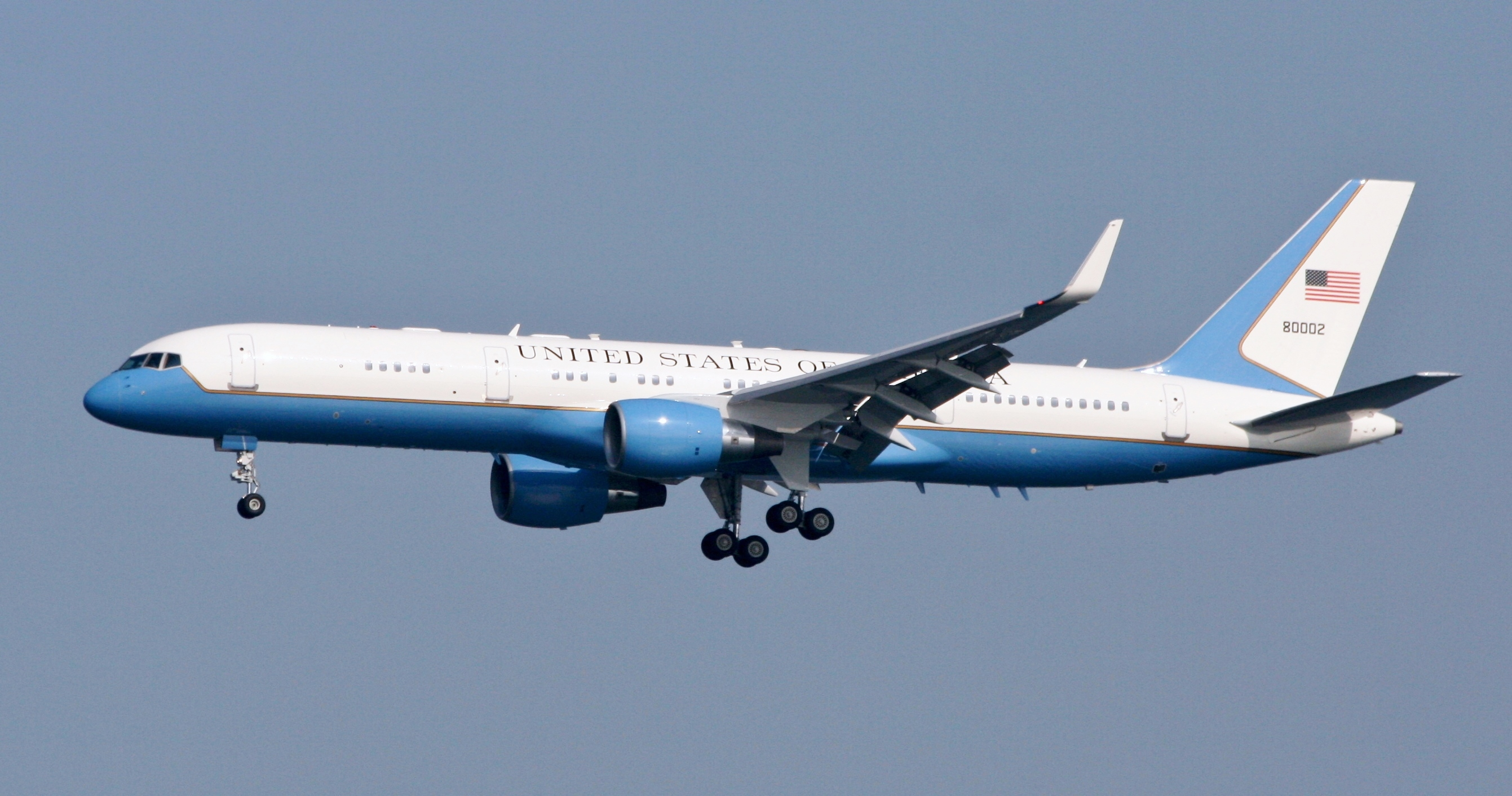 United States Air Force C-32A (military variant of Boeing 757-2G4). This aircraft is used for VIP transport and was transporting Vice President Joe Biden to New York City for an appearance on the ABC program "The View." The aircraft was on short final for LaGuardia Airport's Runway 22 when photographed from Hermon A. MacNeil Park in College Point, Queens, New York.